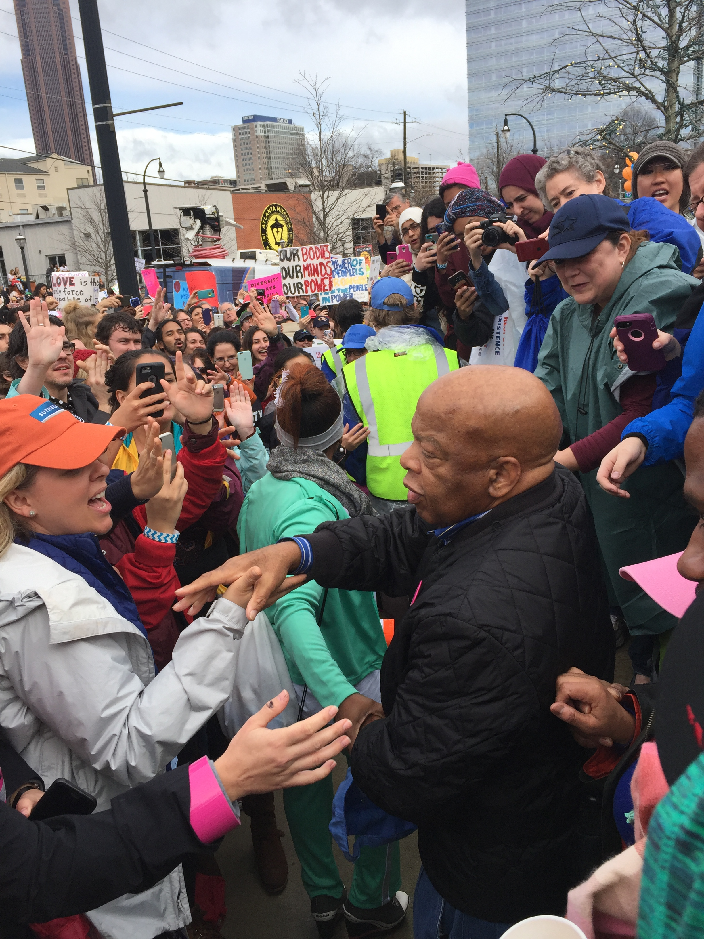 Atlanta March for Social Justice and Women outside the Civil Rights building. John Lewis walking through the crowd after his speech.